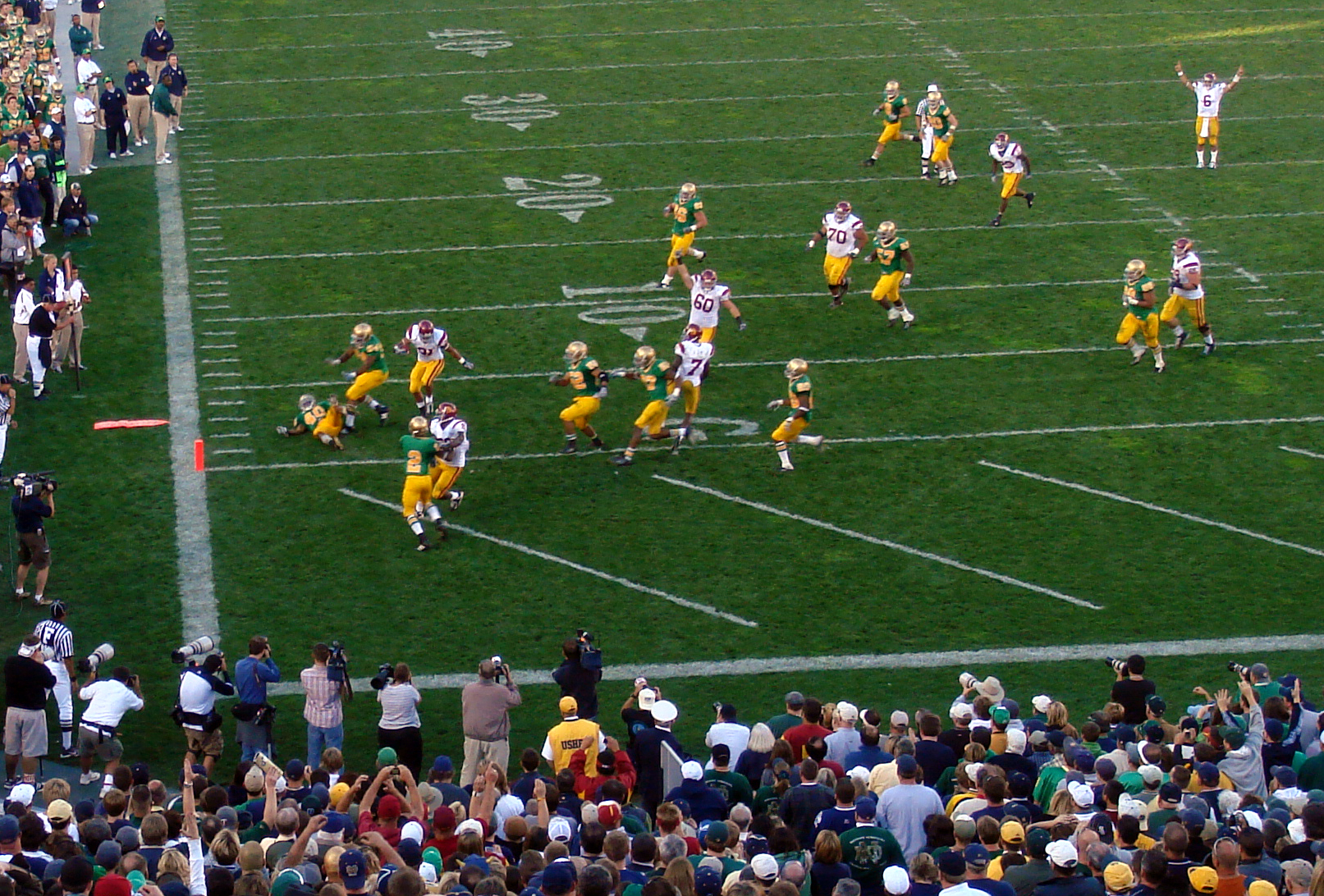 Notre Dame Stadium: The USC Trojans's fullback Stanley Havili hops into the end zone for a touchdown against the Notre Dame Fighting Irish in the 79th edition of the inter-sectional rivalry series. USC would win 38-0.